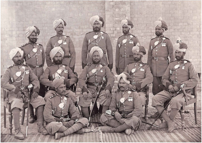 52nd-Sikh-Regiment---Kohat,-Khyber-Pakhtunkhwa-province,-Pakistan-1905